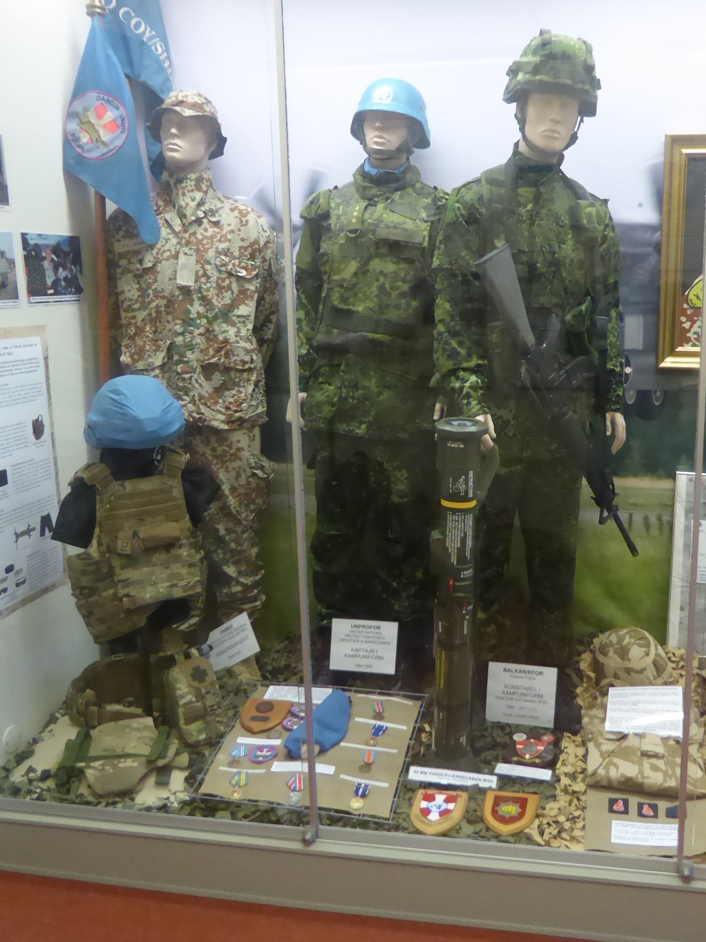 The museum of the Royal Life Guard of Denmark in Copenhagen. Uniforms used in international operations.